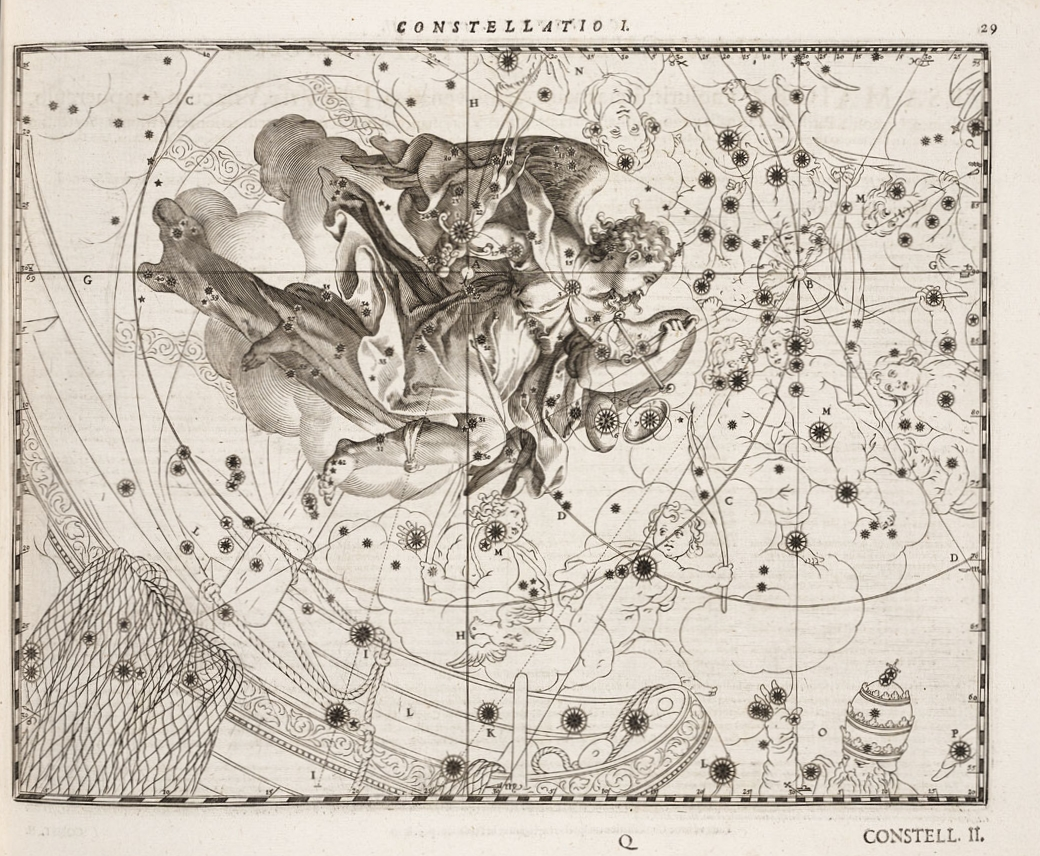 Constellation : Saint Michael